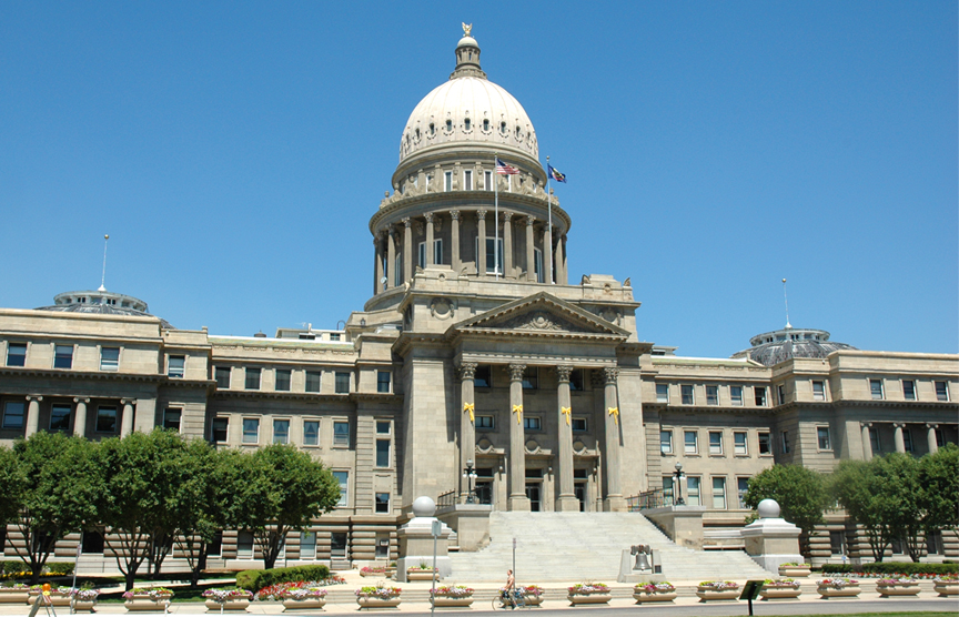 Idaho State Capitol Building Max Batt, 2006